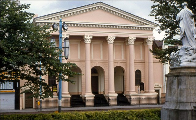 Donegall Square East Methodist Church, Belfast See 383985. A view of the building when still in use as a church. See also 1798770.